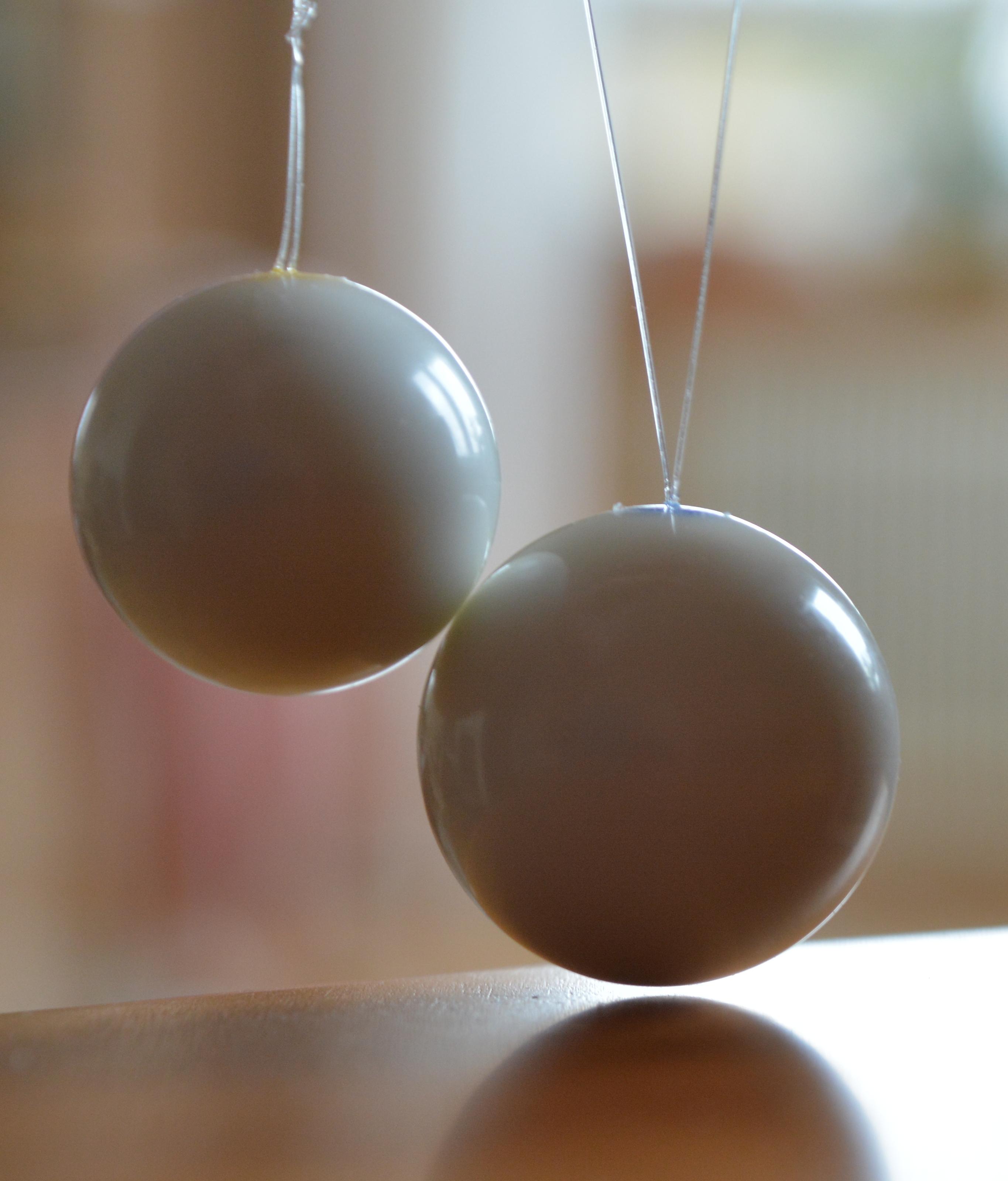 Kegel balls, for the training of women's musculus pubococcygeus, (Kegel exercises), placed beside a 58 mm match box